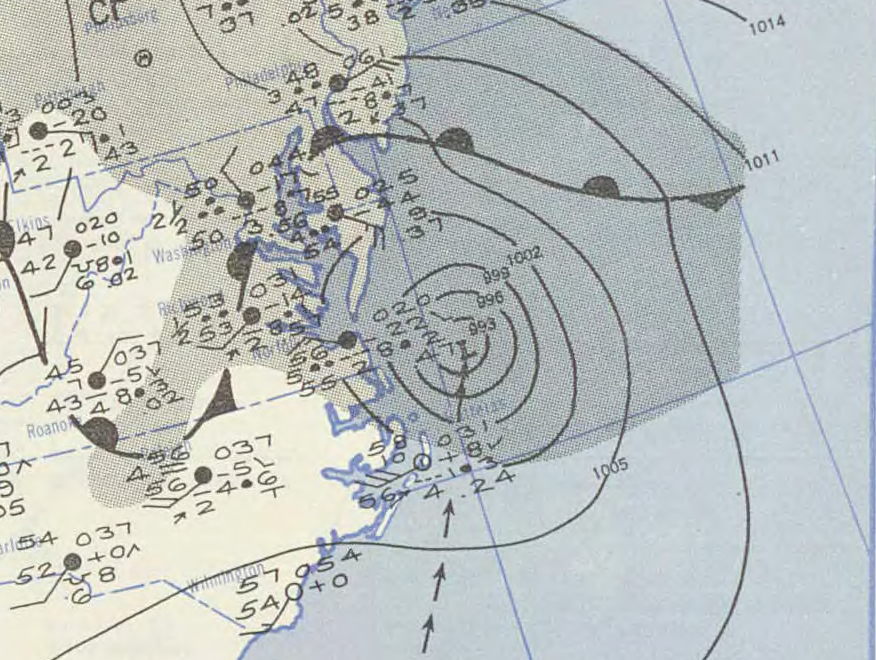 Surface weather analysis of 1952 Groundhog Day tropical storm on 4 February 1952 as an extratropical storm off the East Coast.